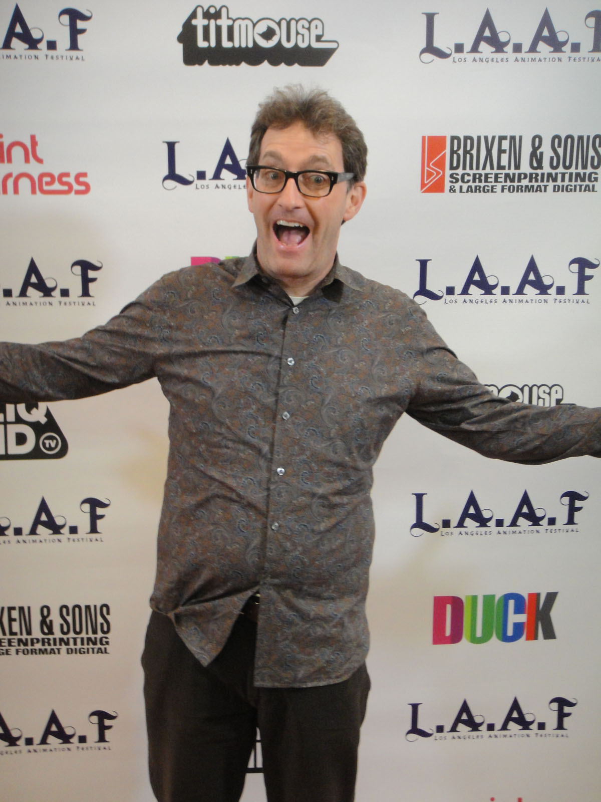 photo 2012 Pop Culture Geek taken by Doug Kline If you're interested in higher resolution versions of my images, contact me via my profile page.